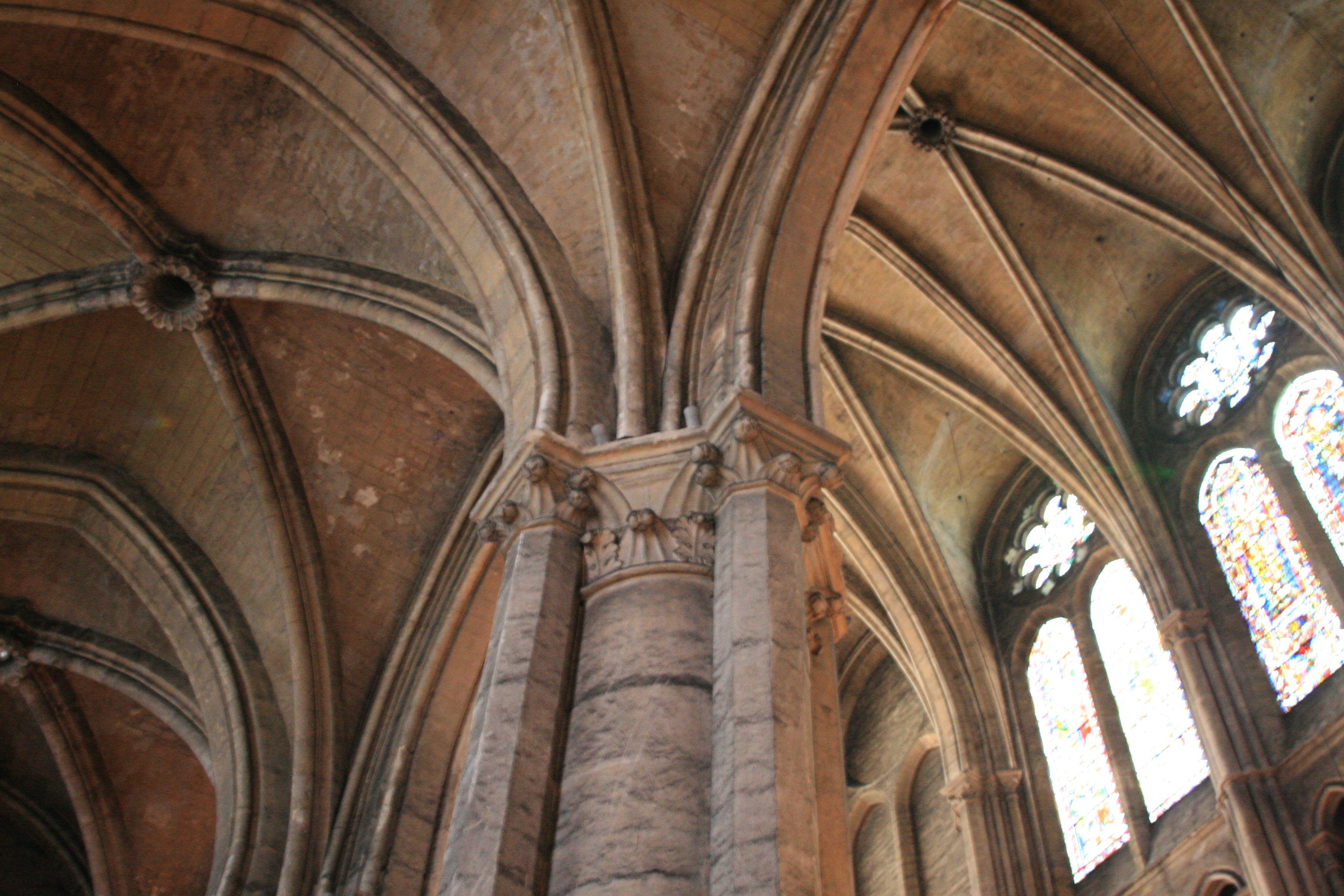 Chartres, France View into the nave from the south aisle of Chartres Cathedral.